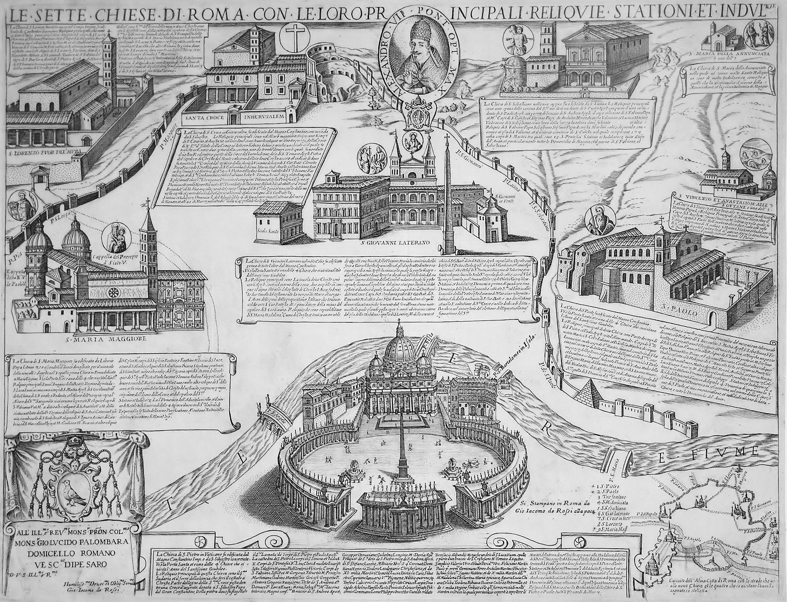 map of Giacomo Lauro and Antonio Tempesta showing the Seven Pilgrim Churches of Rome, which was used for the first time during the Jubilee in the year 1600. The plate was afterwards reissued as a guide for the pilgrims in 1609, 1621, 1630 and 1636.